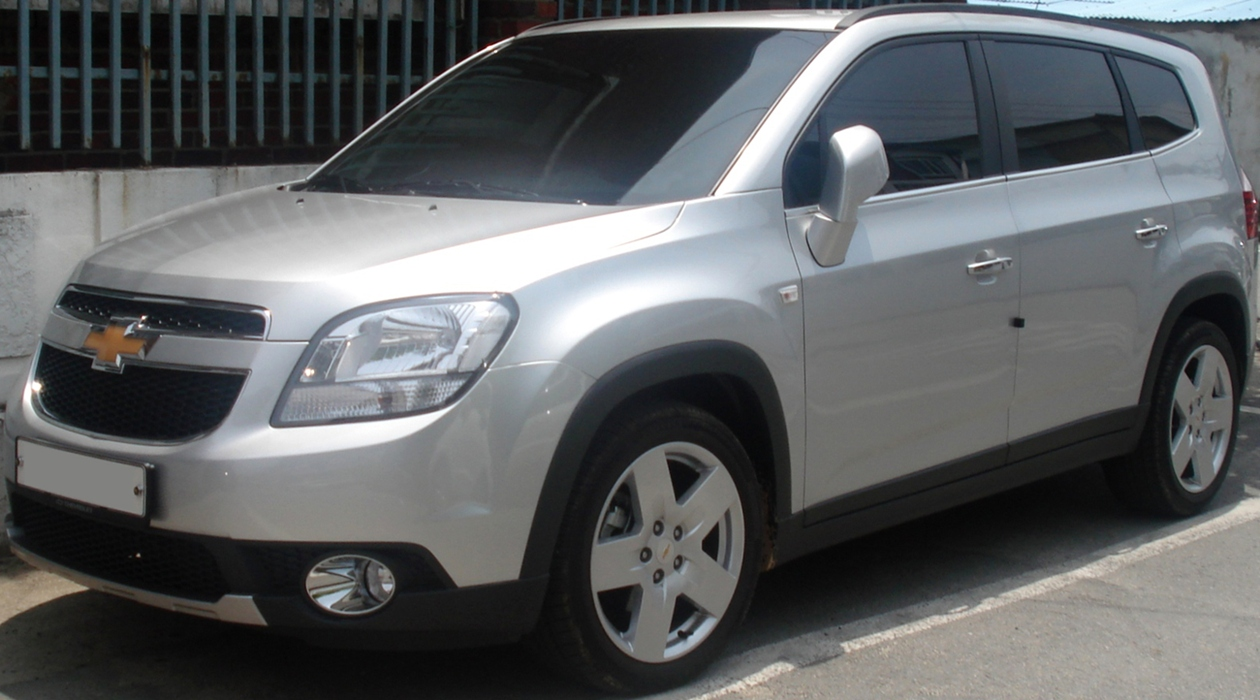 Chevrolet Orlando